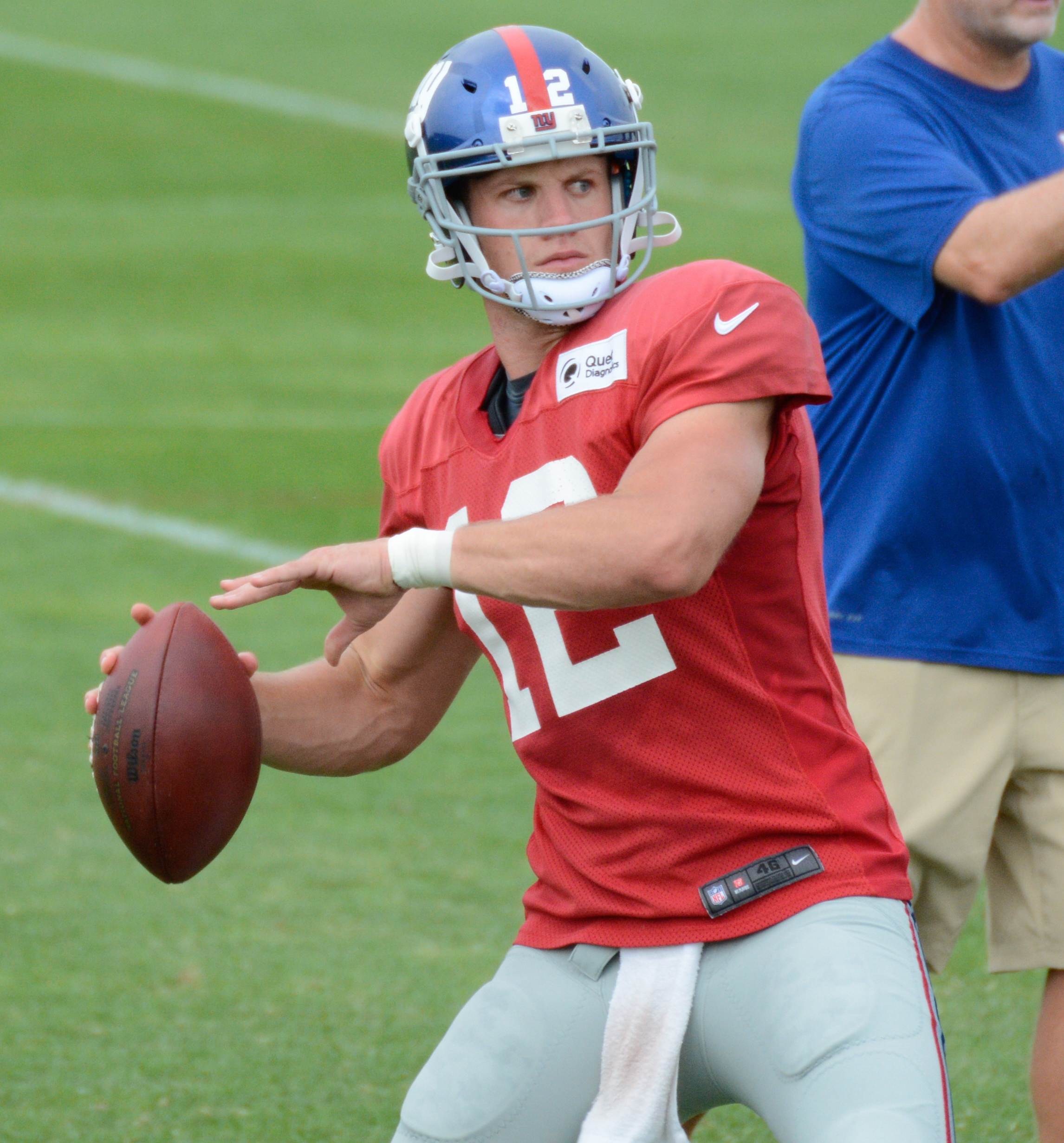 New York Giants training camp